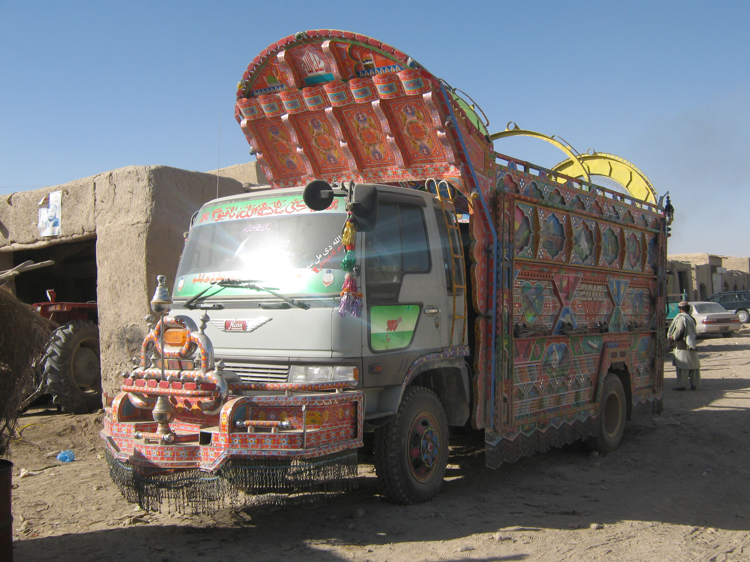 Jingle truck at the bazaar in Garmsir District, Helmand Province, Afghanistan.